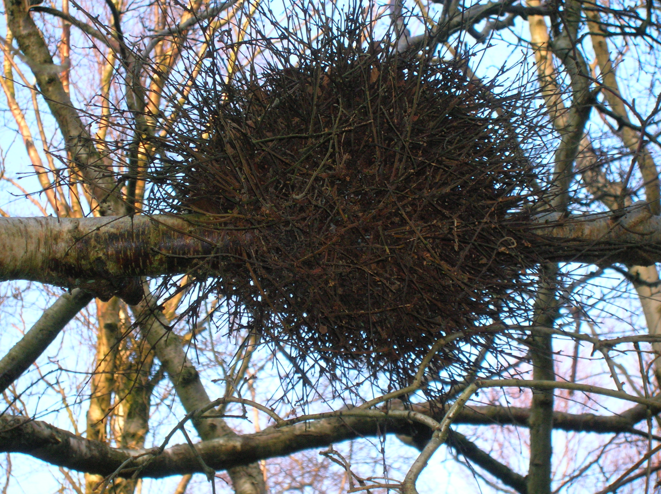 Witch's broom at Corsehillmuir, North Ayrshire, Scotland.